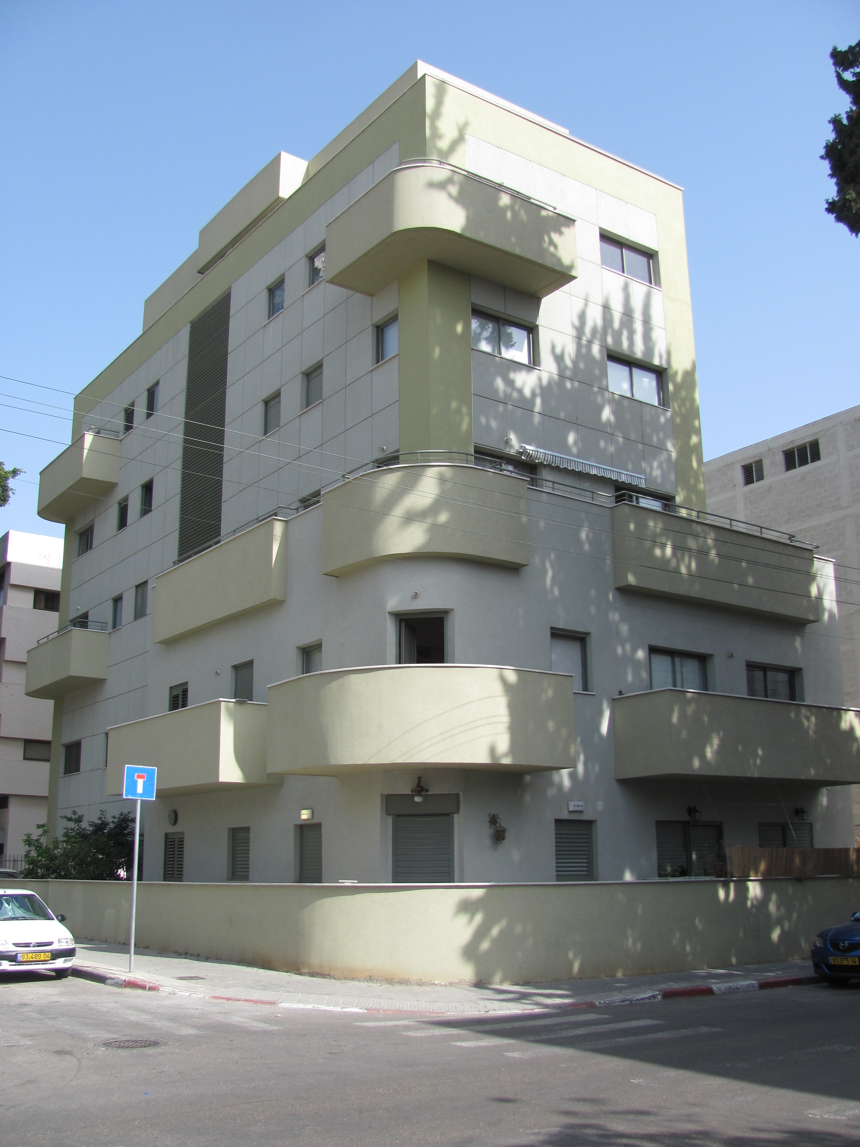 A renovation project in Montefiore neighbourhood, Tel Aviv.